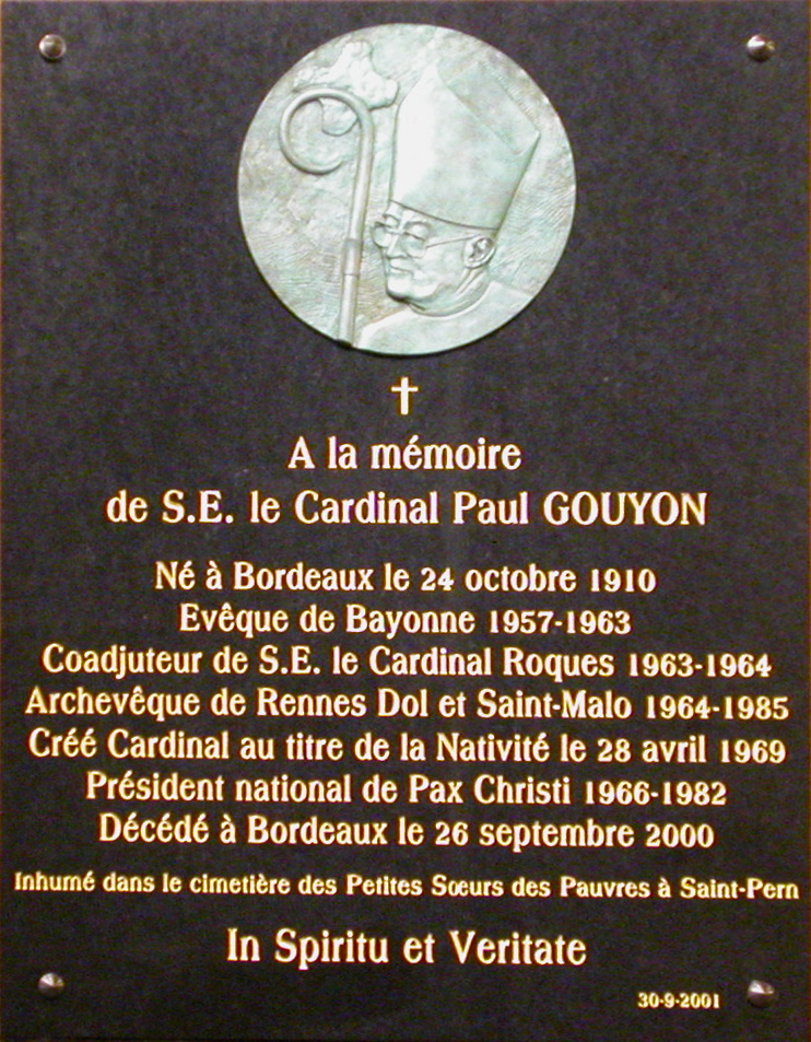 Plaque commemorating cardinal Paul Gouyon in the Rennes Cathedral